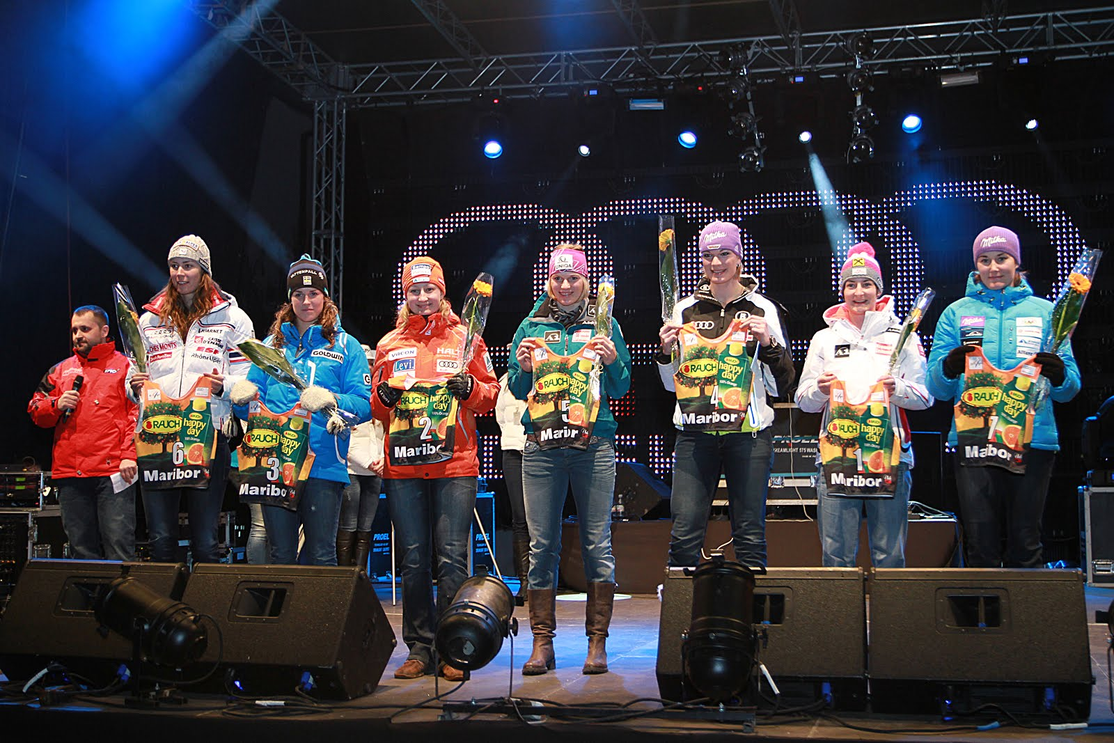 Zlata lisica 2011